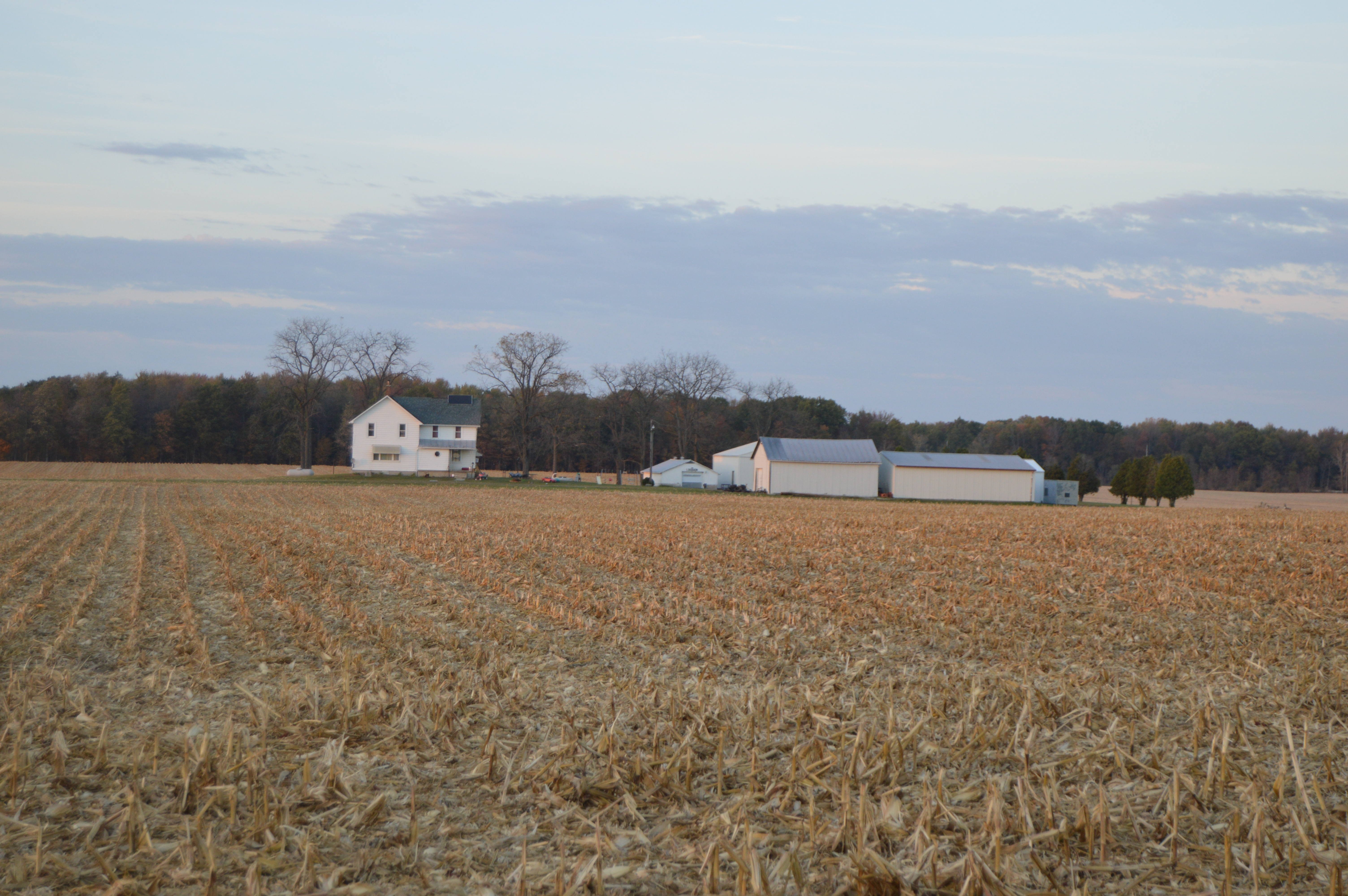 Looking northward from State Route 103 over a farmstead on the eastern side of Swabb Road in westernmost Cranberry Township, Crawford County, Ohio, United States.